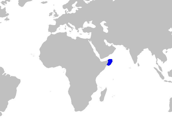 Distribution map for Ctenacis fehlmanni